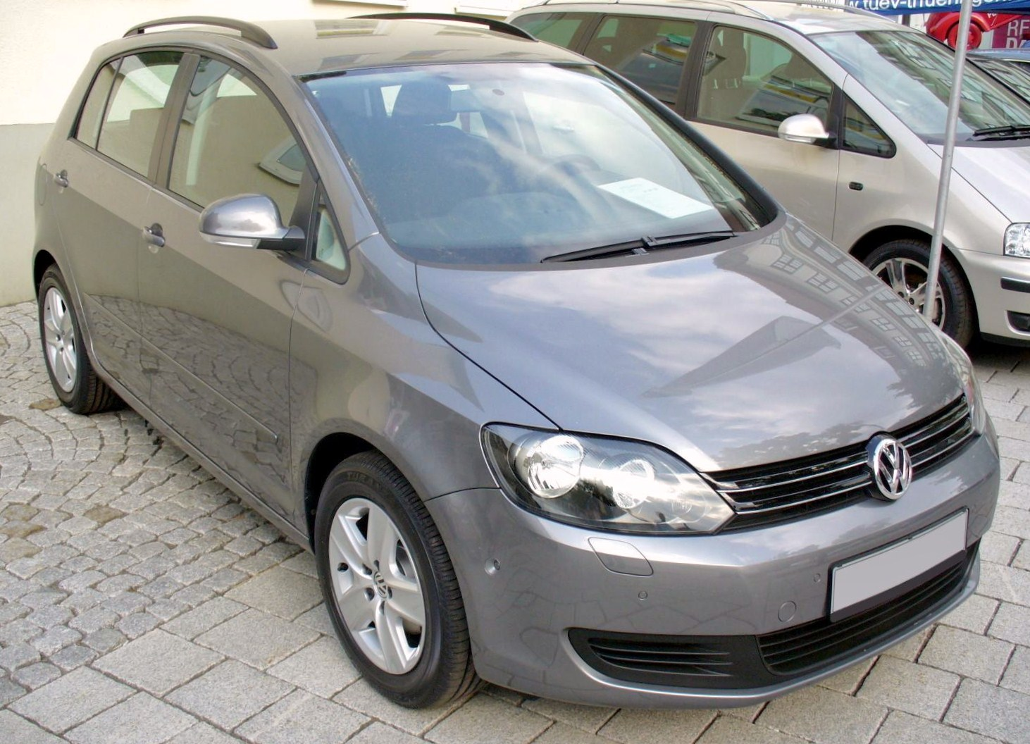 VW Golf Plus Facelift